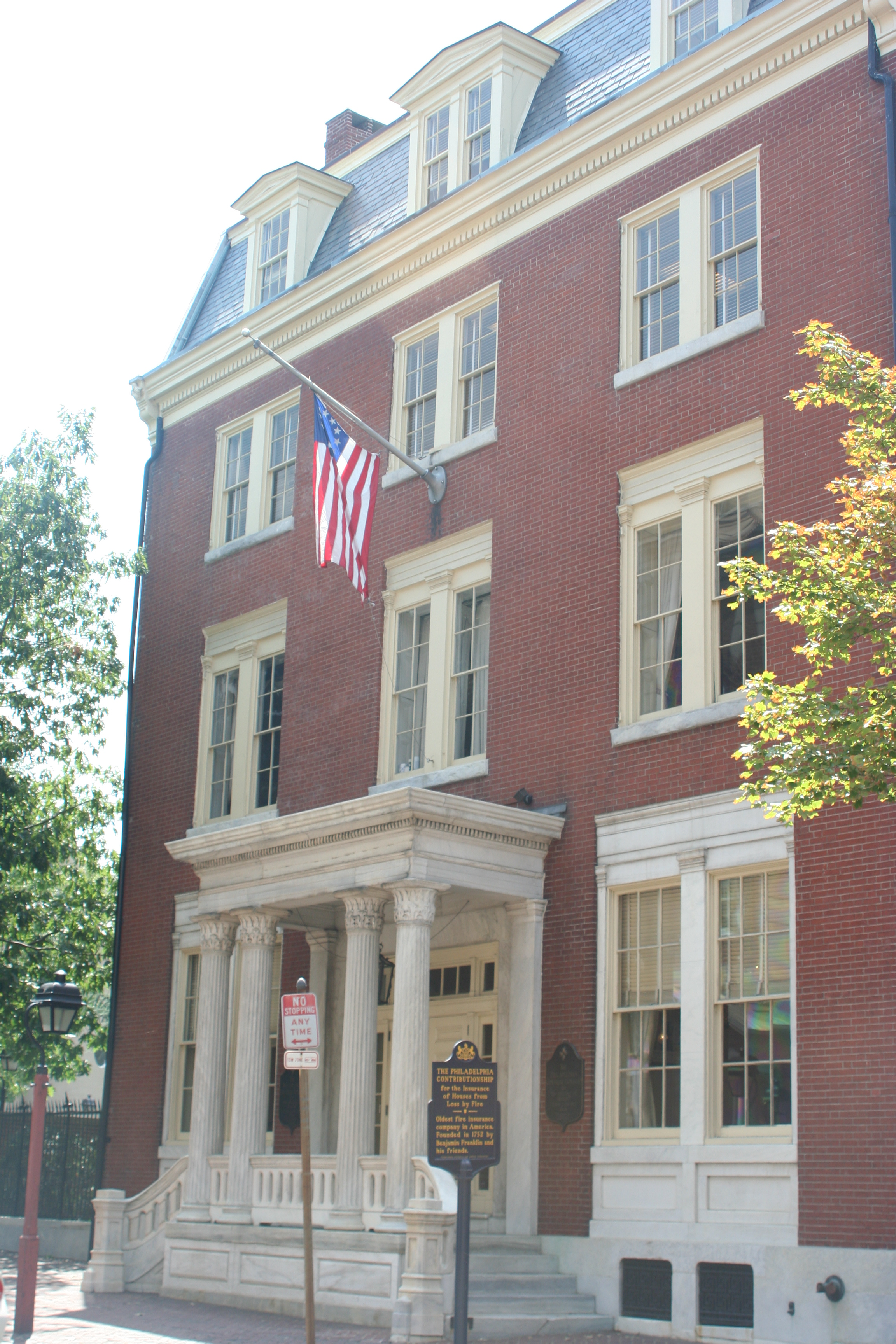 The Philadelphia Contributionship for the Insurance of Houses from Loss by Fire is an active insurance company in Philadelphia, PA which was started by Benjamin Franklin.